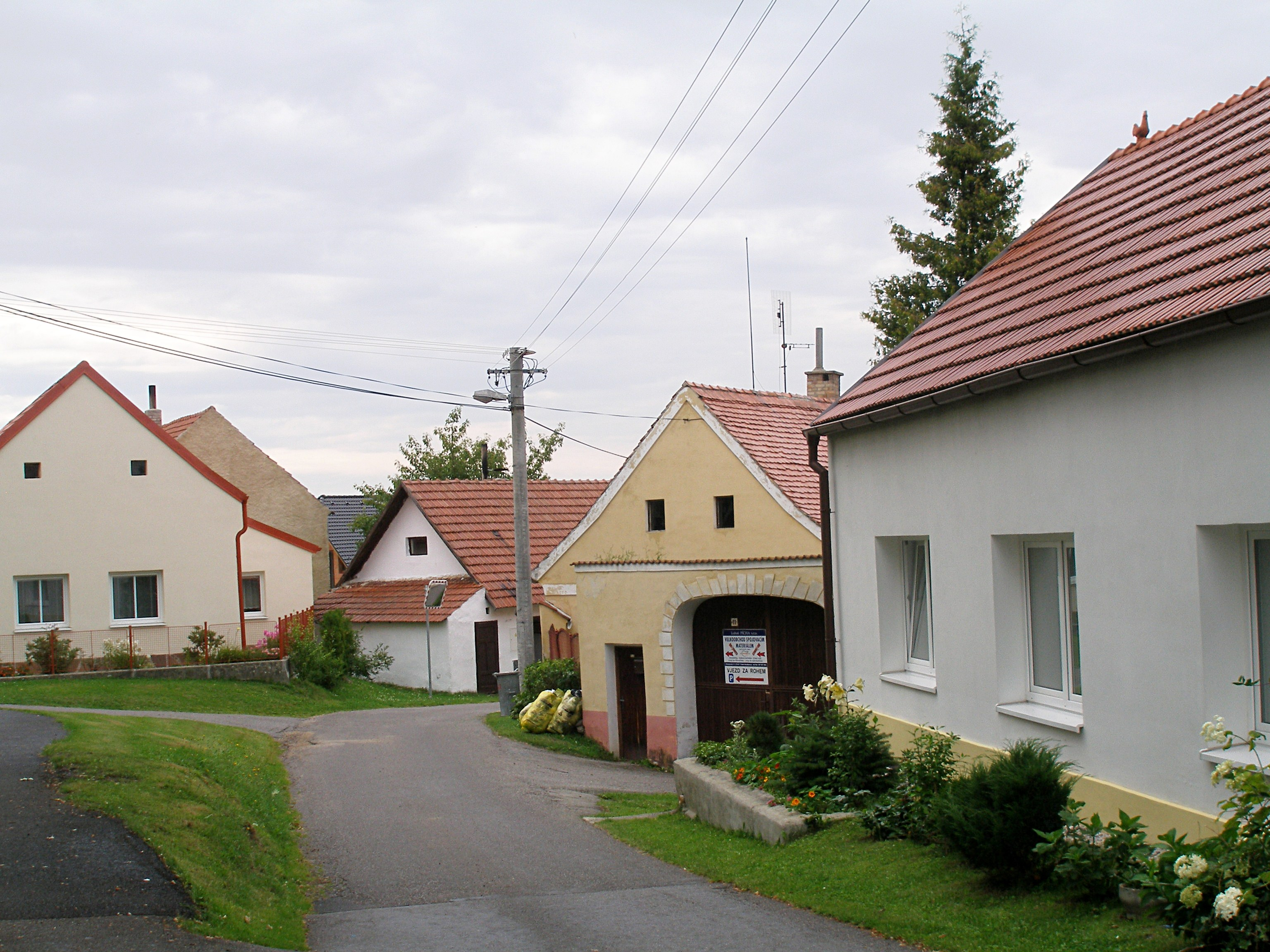 The square in Krasejovka